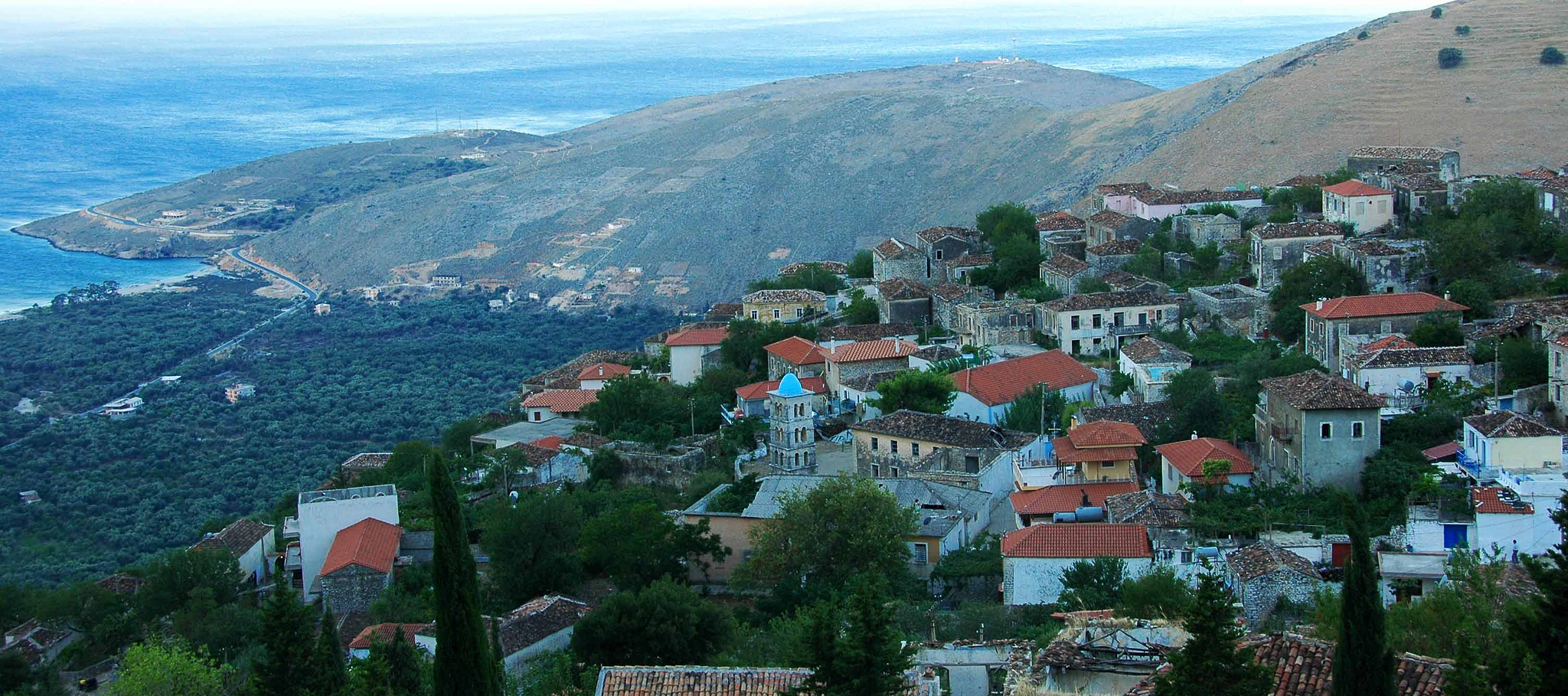 The old part of the village of Qeparo in southern Albania on the shores of the Ionian Sea.